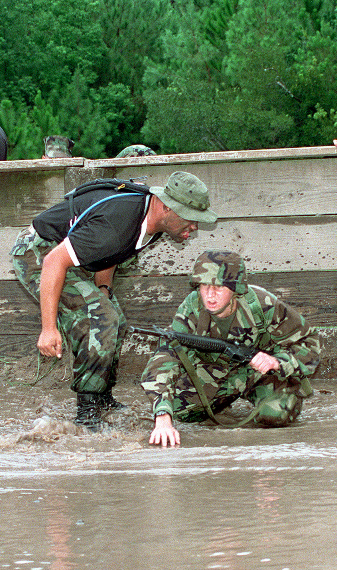 Sgt. Drake Ferguson (left) provides motivation to Christian Castanet as he negotiates a water hazard during training on the Individual Movement Course at Parris Island Recruit Training Depot, S.C., on Sept. 6, 2000. Castanet is the son of Richard A. Castanet, from Richmond, Va., who is the Marine winner of the Yahoo! Fantasy Careers in Today's Military Contest. Father and son are experiencing Marine Corps training together.